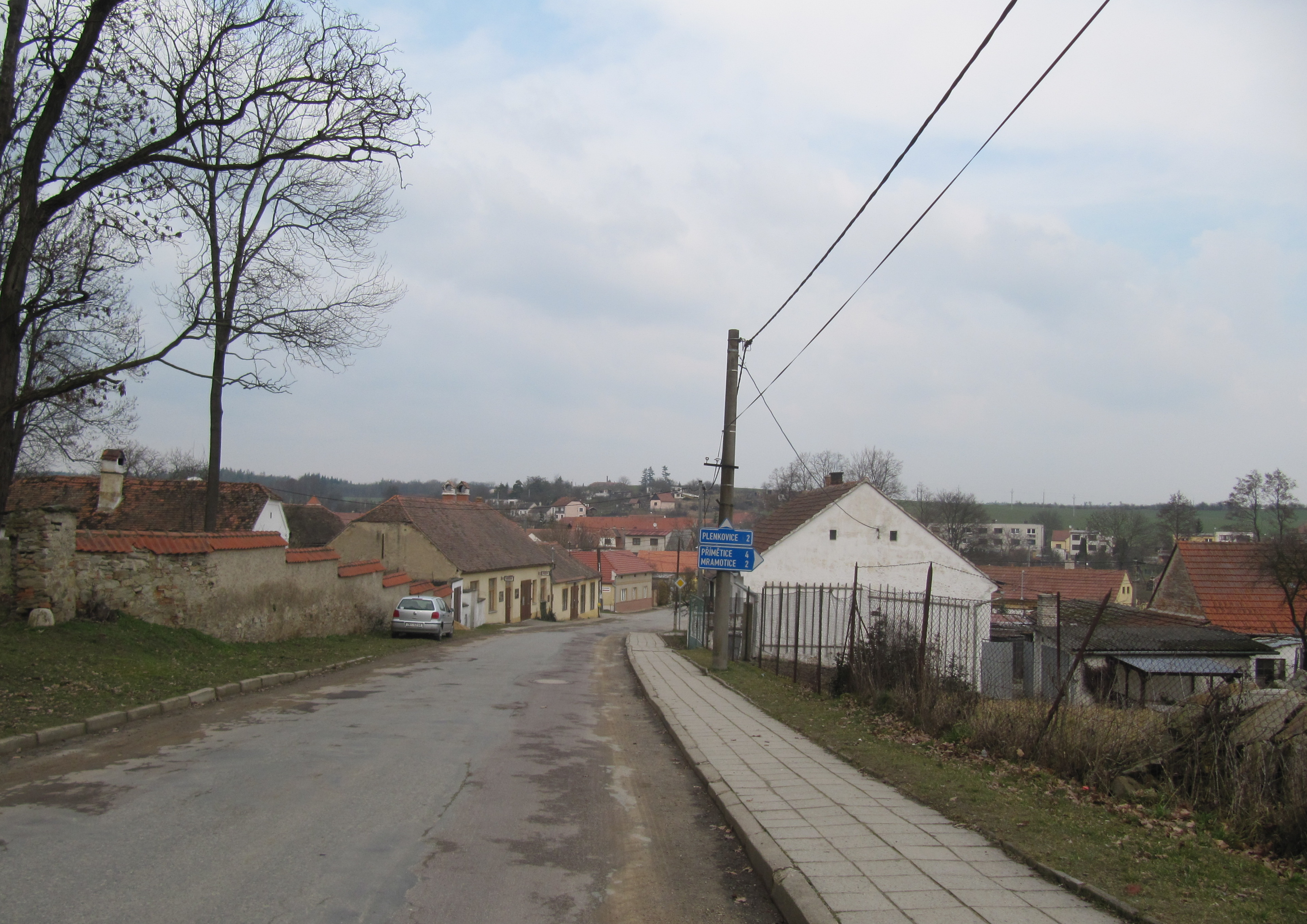 Kravsko, Znojmo District, Czech Republic.